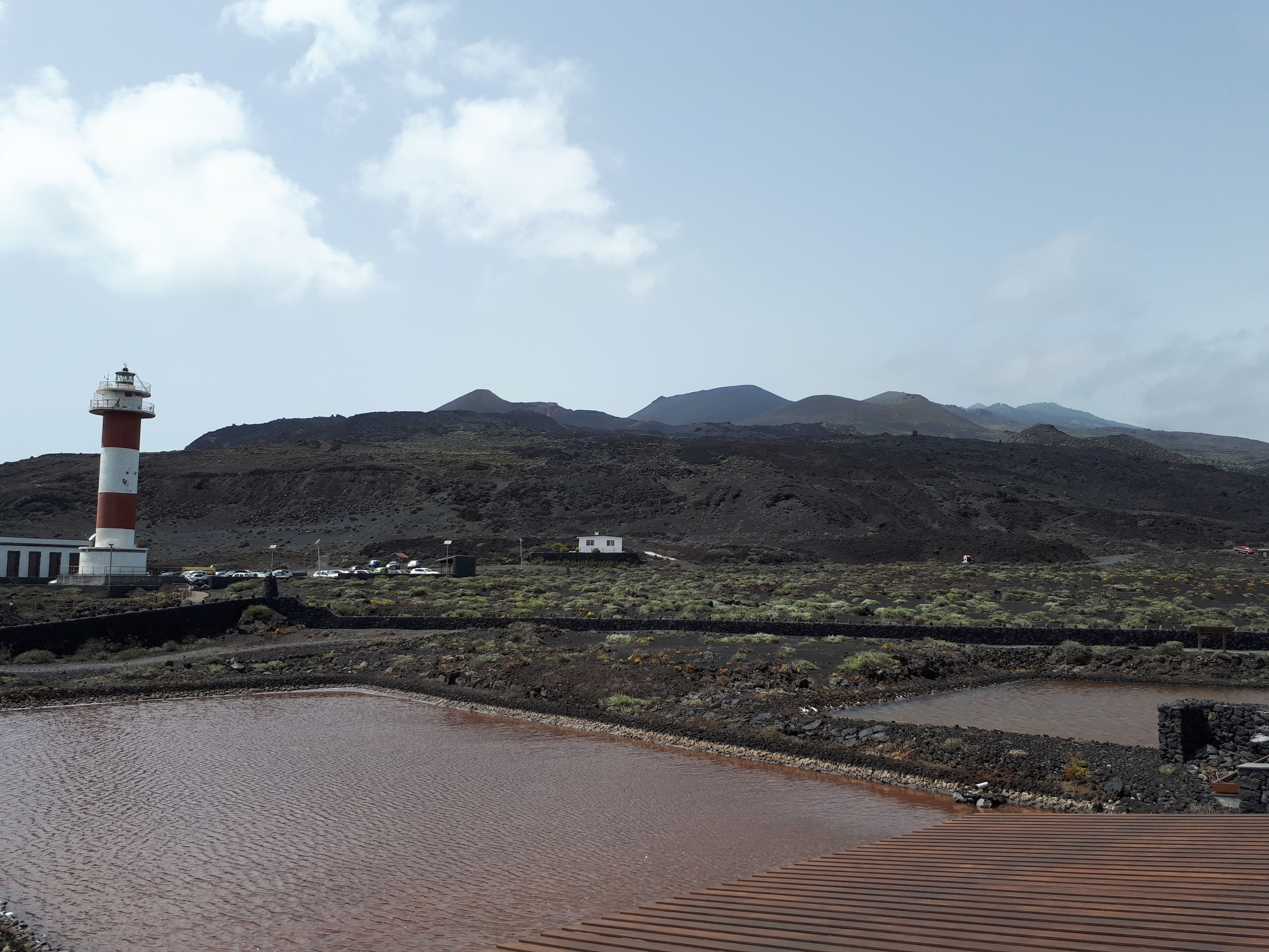 View from the Saline of Fuencaliente towards Teneguia and San Antonio